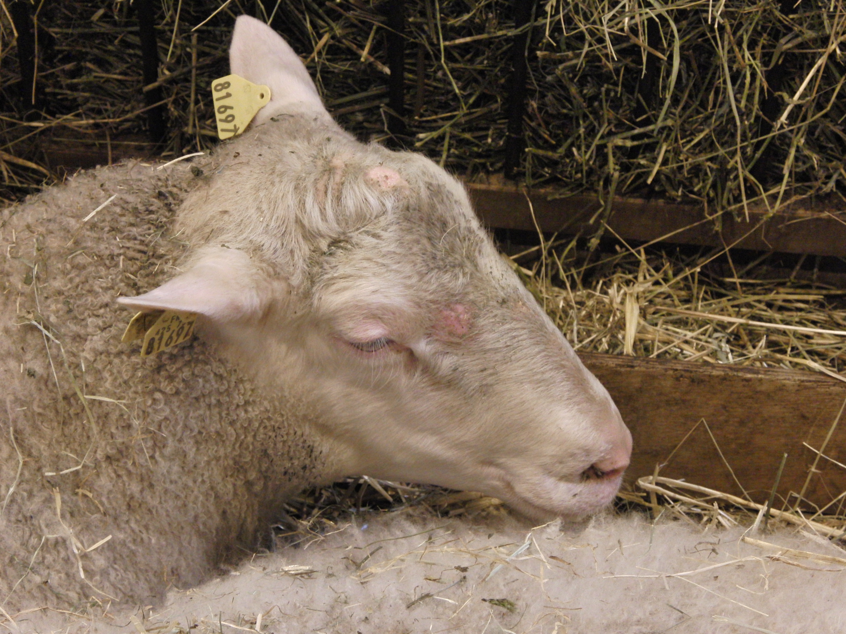 Finnsheep's head - Salon international de l'agriculture 2011, Paris, France